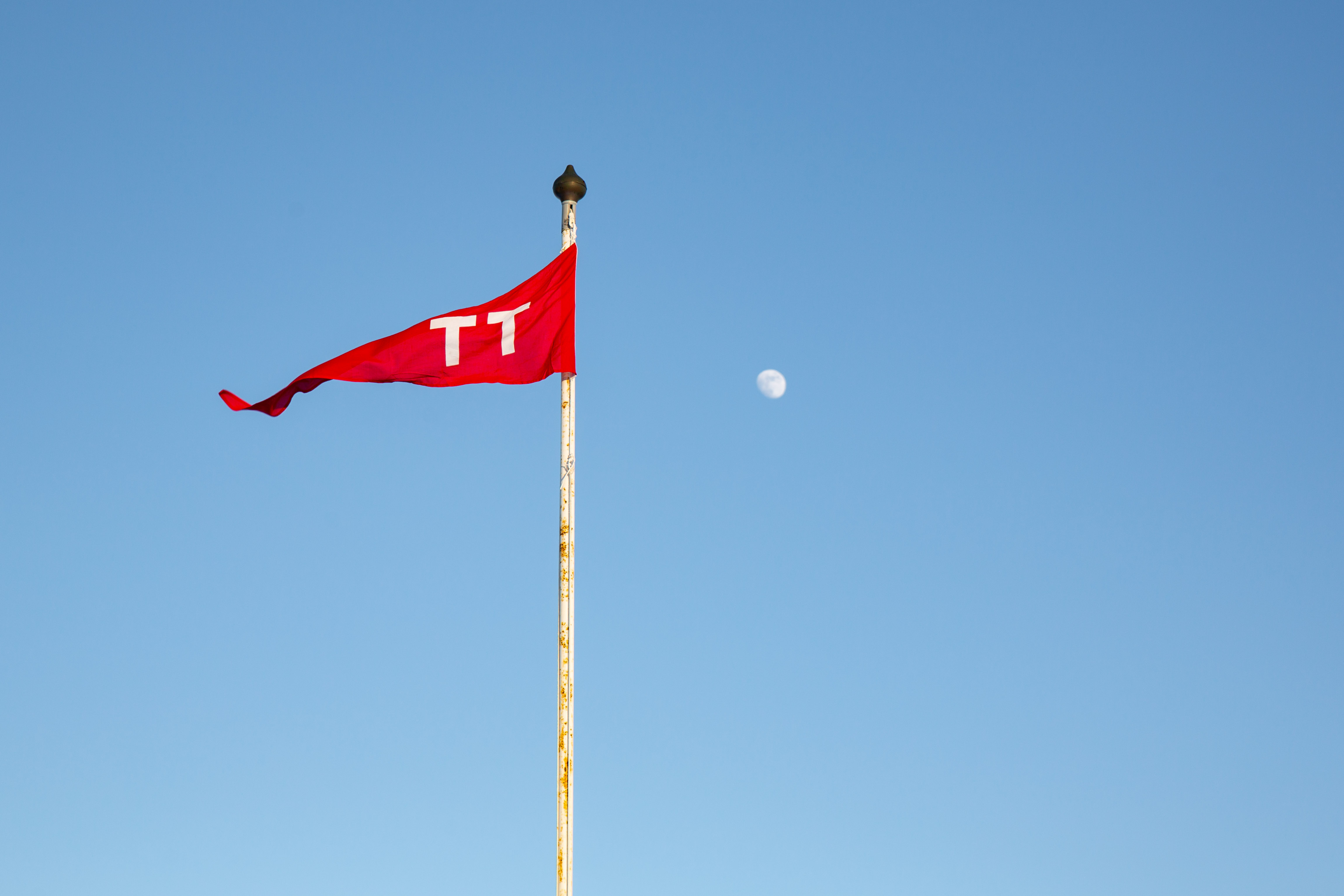 Flag of Trondheim Turistforening at Ramsjøhytta in Sylan, Norway